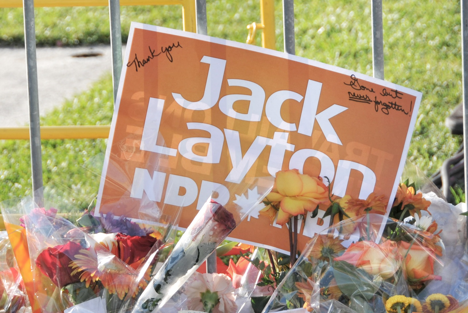 An impromptu memorial for Canadian Leader of the Opposition, Jack Layton emerged on Parliament Hill the day he died. Ottawa, August 22nd, 2011.